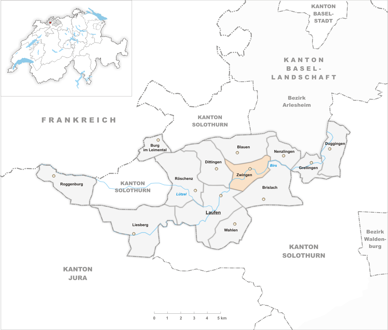 Municipality Zwingen